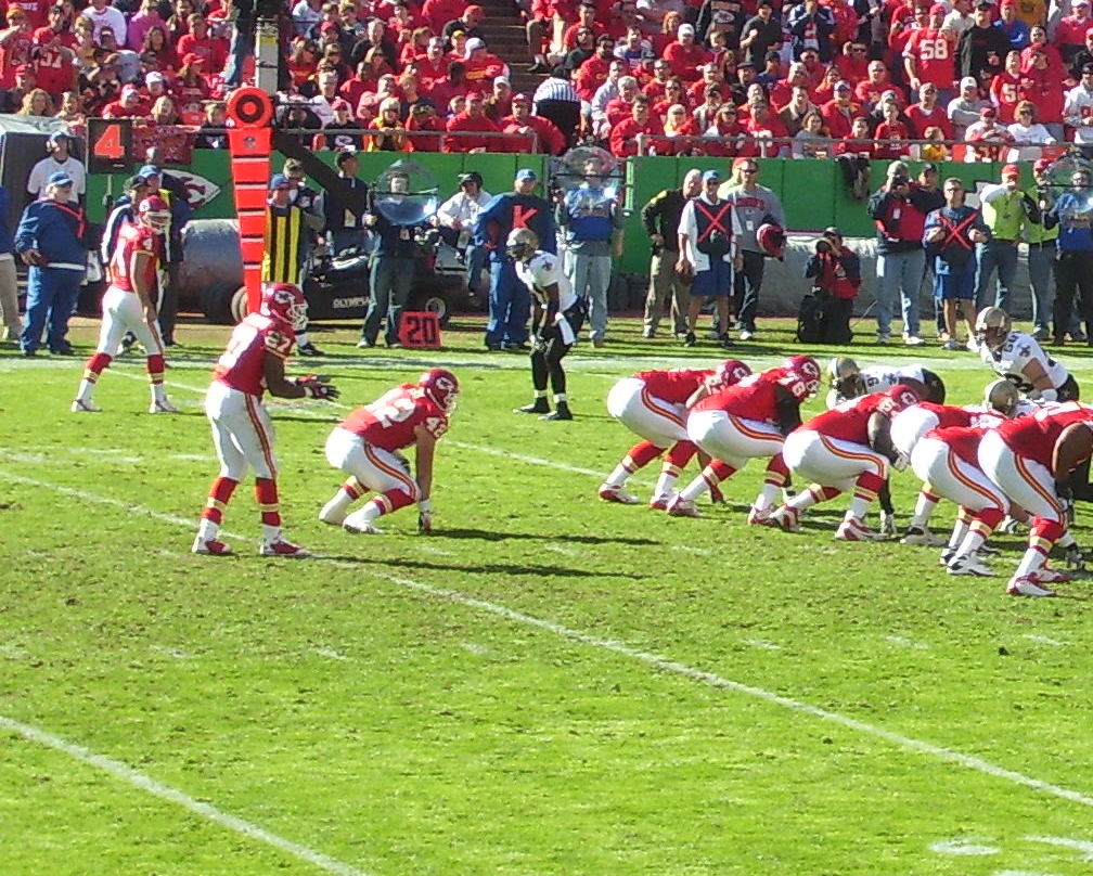 Chiefs running back Larry Johnson lines up on offense as the quarterback in a Wildcat formation. November 16, 2008. New Orleans Saints at Kansas City Chiefs, Arrowhead Stadium in Kansas City, MO.